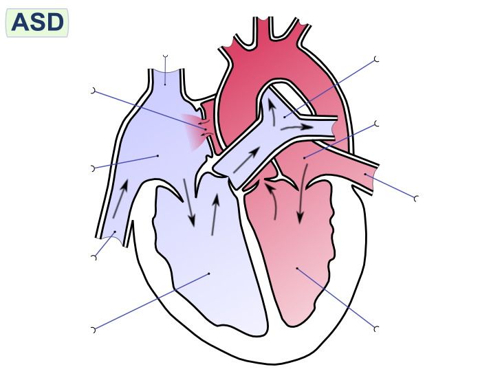 Atrial septal defect (ASD) is a form of congenital heart defect that enables blood flow between the left and right atria via the interatrial septum.